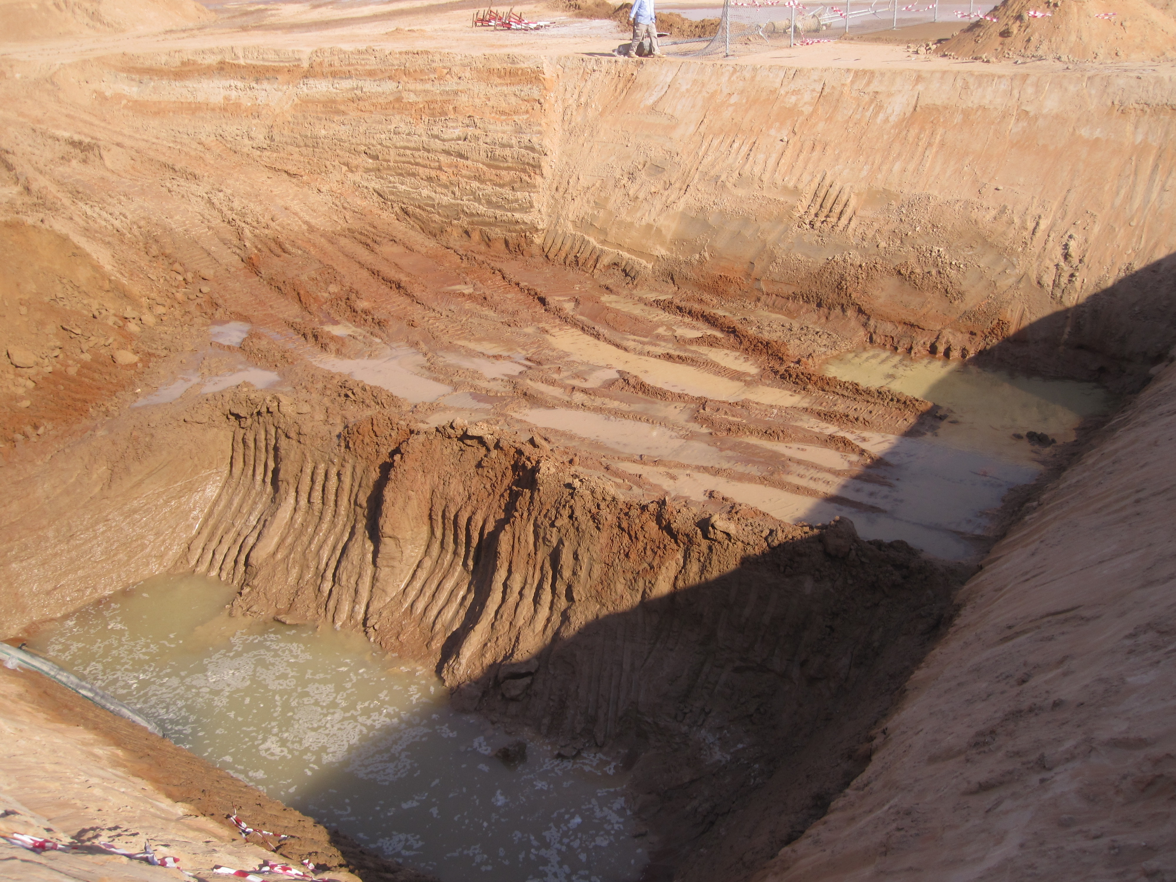 This picture was taken on December 11th, 2011, in the Shaybah's "Empty Quarter", one of Saudi Arabia's remote deserts. It was during my first deep excavation to start constructing a lift station that will pump wastewater to a local existing Sanitary Treatment Plant used by Saudi Aramco. Once we reached 3 meters deep[clarification needed], we found water. I will use this photo to support the evidence of Lake Beds in the "Empty Quarter" wikipedia article.